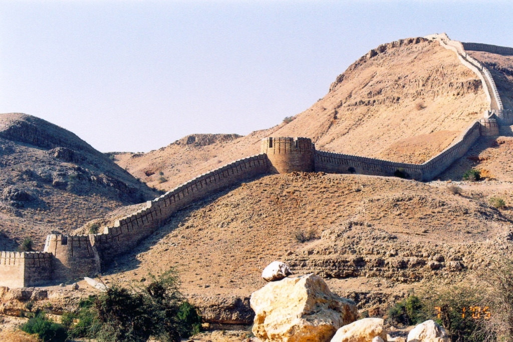 Rani Kot is a large fort in the region of the Kirthar Range, about 30 km southwest of Sann, in the Dadu district of Sindh, approximately 90 km north of Hyderabad in Pakistan.